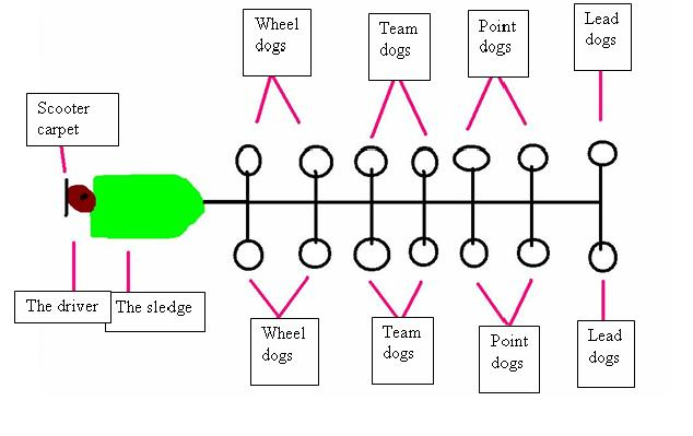 A map over the sled dog team.